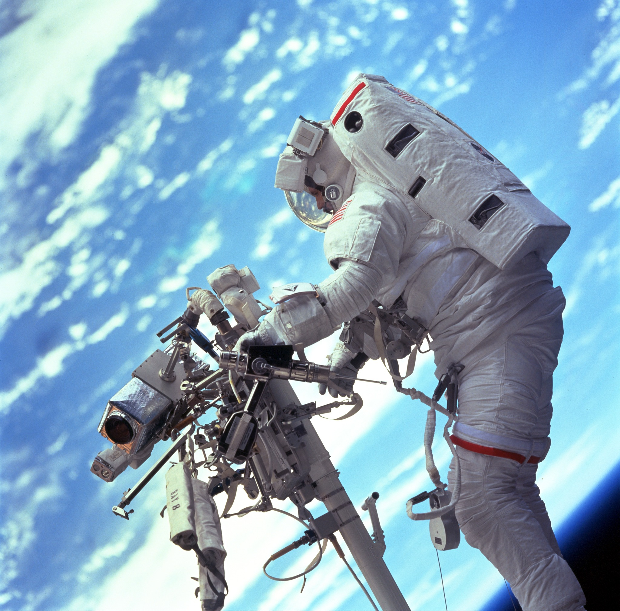 Astronaut Steven L. Smith, Hubble Space Telescope (HST) servicing mision 3A payload commander, retrieves a Pistol Grip Tool (PGT) power tool while standing on the mobile foot restraint at the end of the remote manipulator system (RMS). Many of the tools required to service the HST are stored on the toolboard stanchion attached to the RMS.